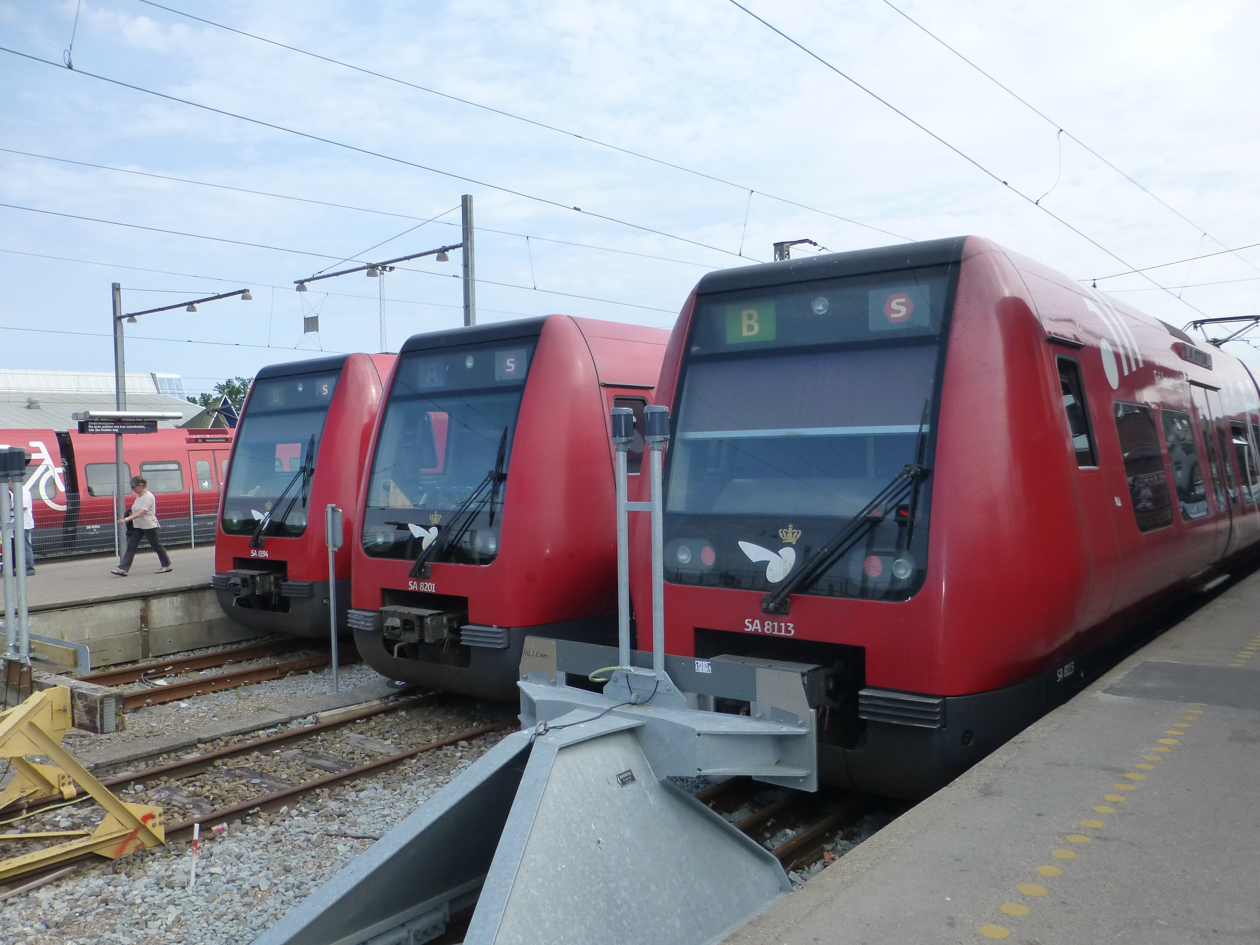 Hillerød Station in Denmark where several railway lines meets.